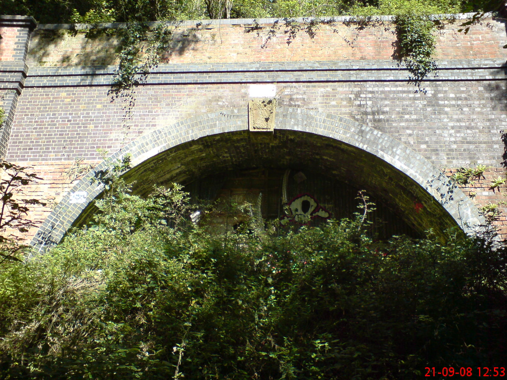 West Meon Tunnel, now graffitied by delinquents.